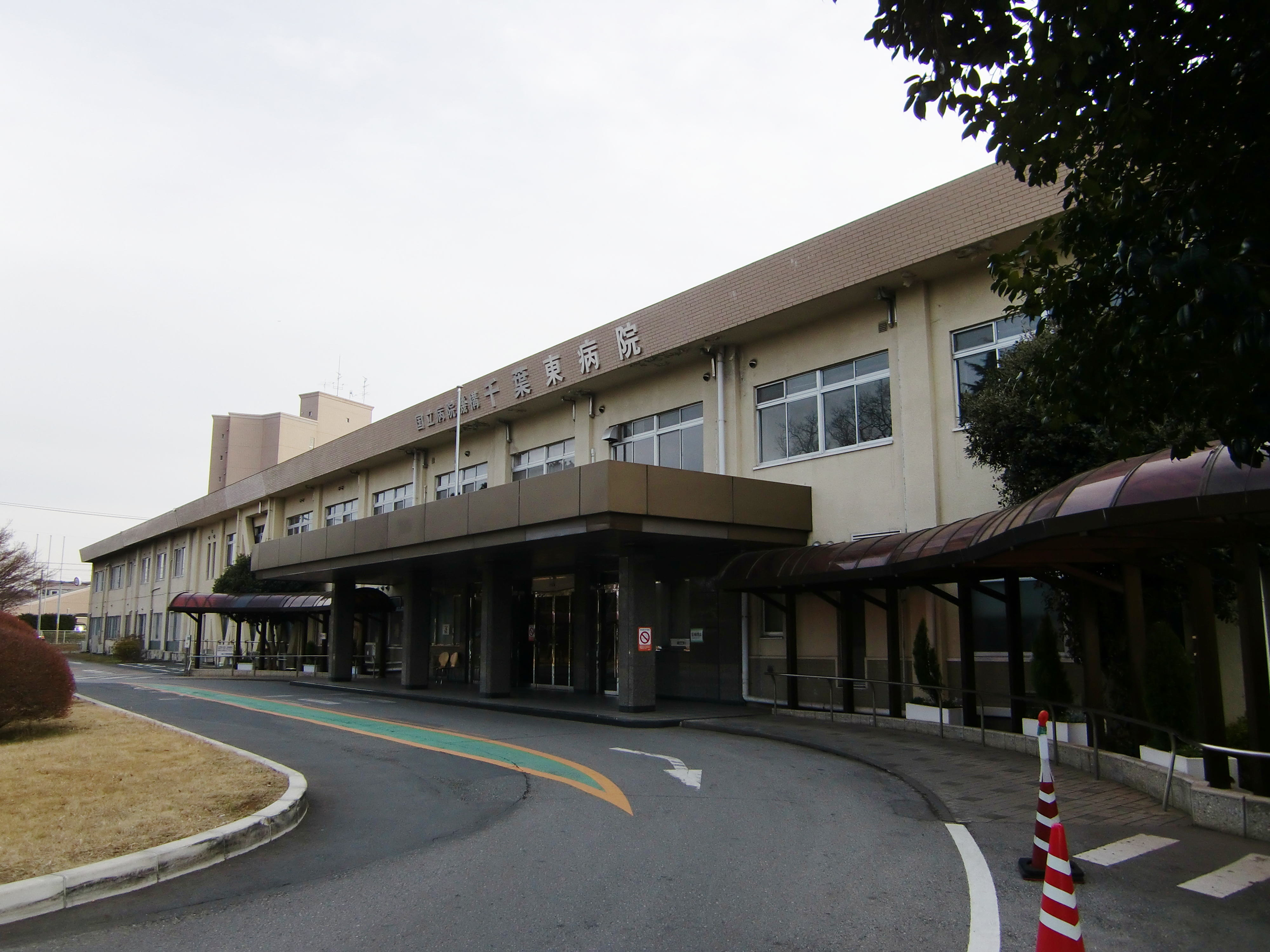 National Hospital Organization Chiba-East-Hospital